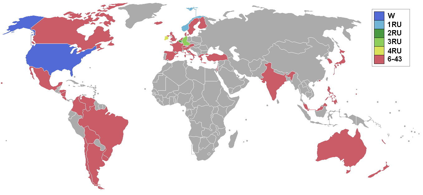 ms international 1978 results